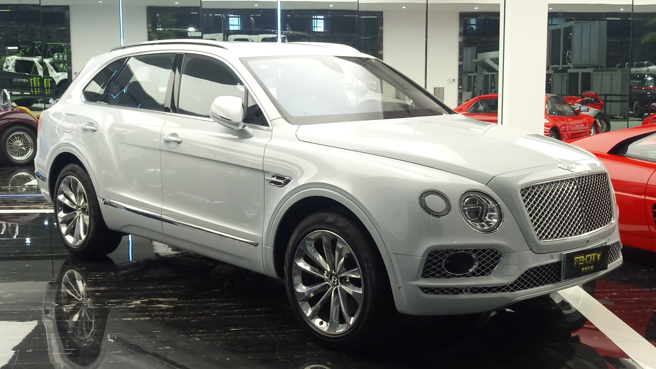 Bentley Bentayga photographed in Beijing, China.